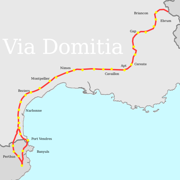 Thomas Miles, made on the gimp, consulting several maps, using wikipedia's blank France Map as template